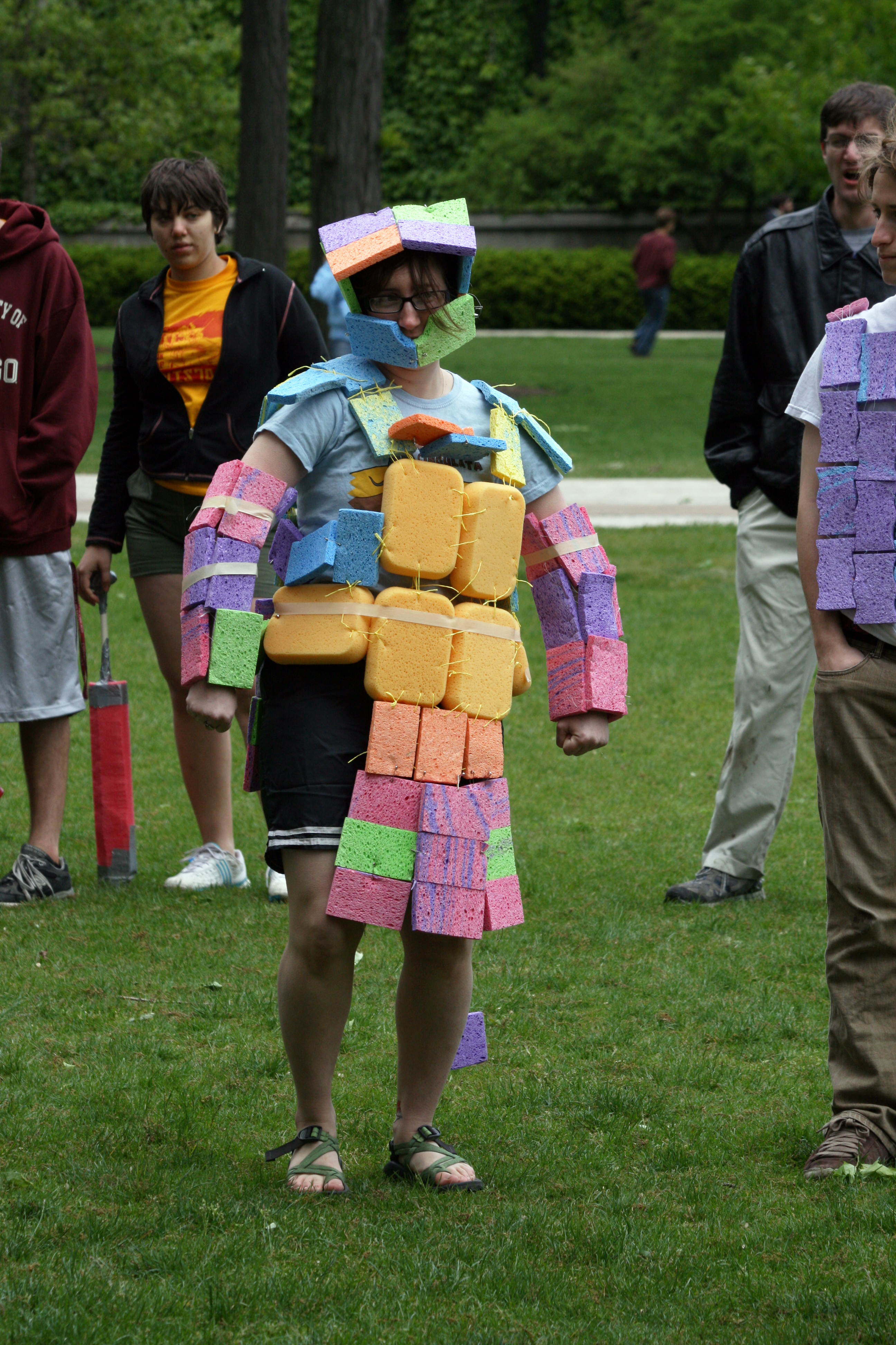 Ready for battle